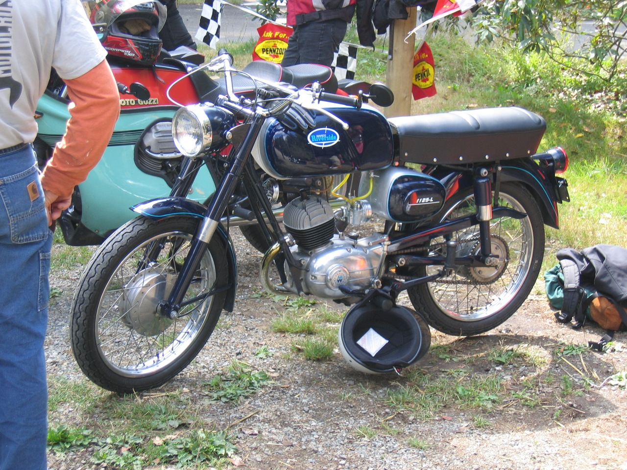 Benelli-Riverside 1125L